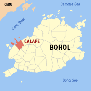 Map of Bohol showing the location of Calape